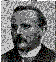 Frans Reinhold Kjellman, (4 November 1846 - 22 April 1907). Swedish botanist